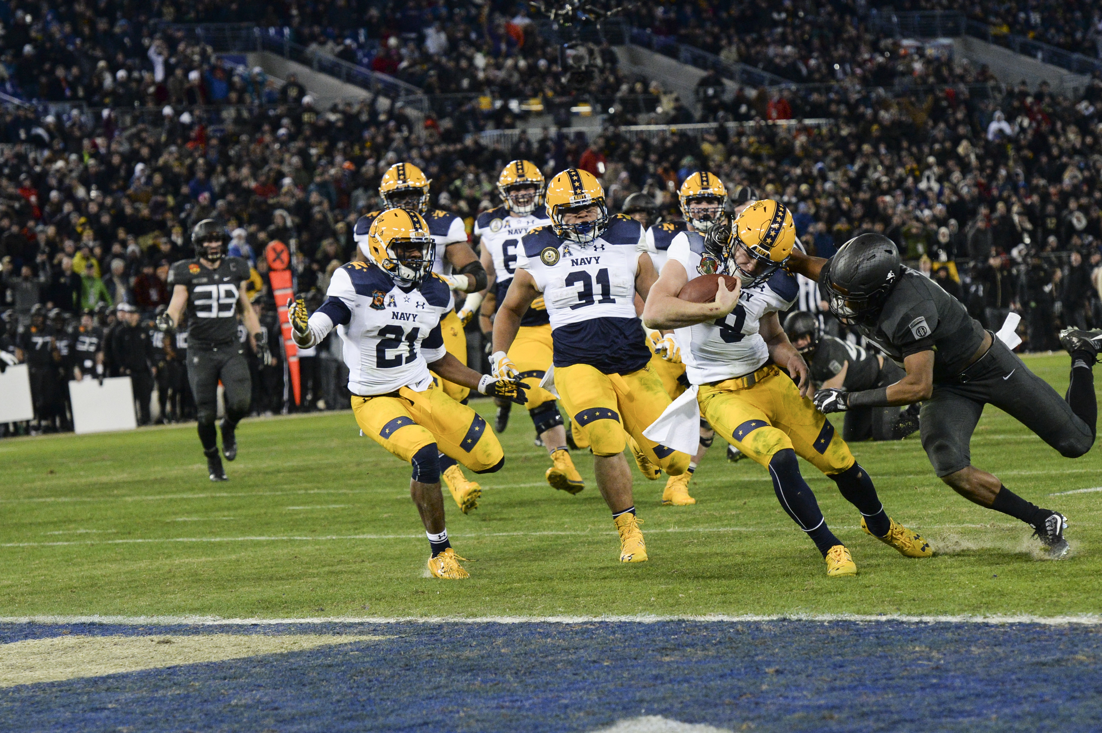 161210-N-XP477-2633 BALTIMORE, Md. (Dec. 10, 2016) Midshipmen Zach Abey (9 QB) fights off a tackle from an Army defender and plows into the end zone for a touchdown during the Army-Navy Game at M&T Bank Stadium, in Baltimore. Army won the game 21-17 and broke the Navy's 14 game unbeaten winning streak in the fierce service academy rivalry. (U.S. Navy photo by Petty Officer 2nd Class Danian C Douglas/Released)